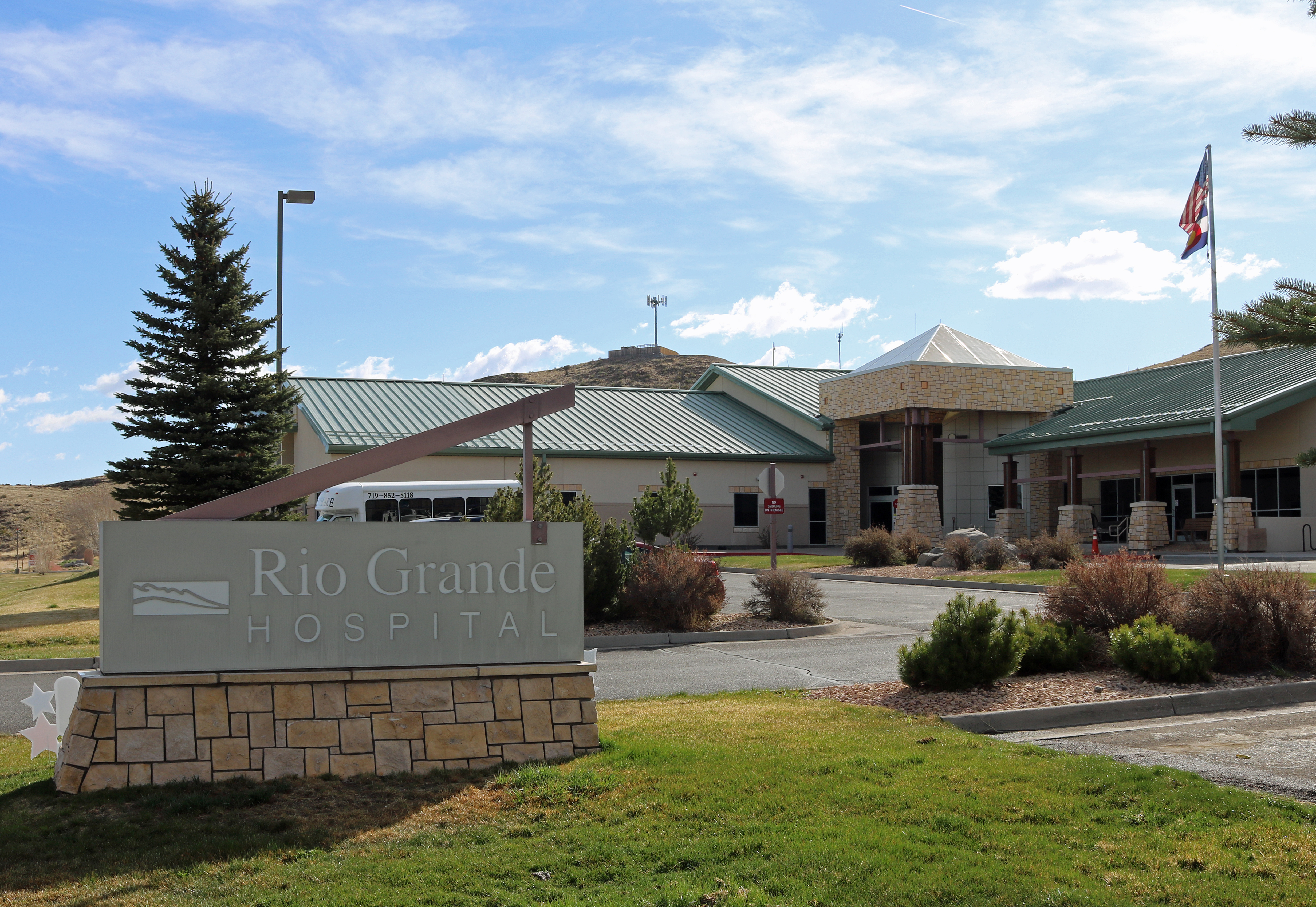 The Rio Grande Hospital, located at 310 County Road 14 in Del Norte, Colorado.